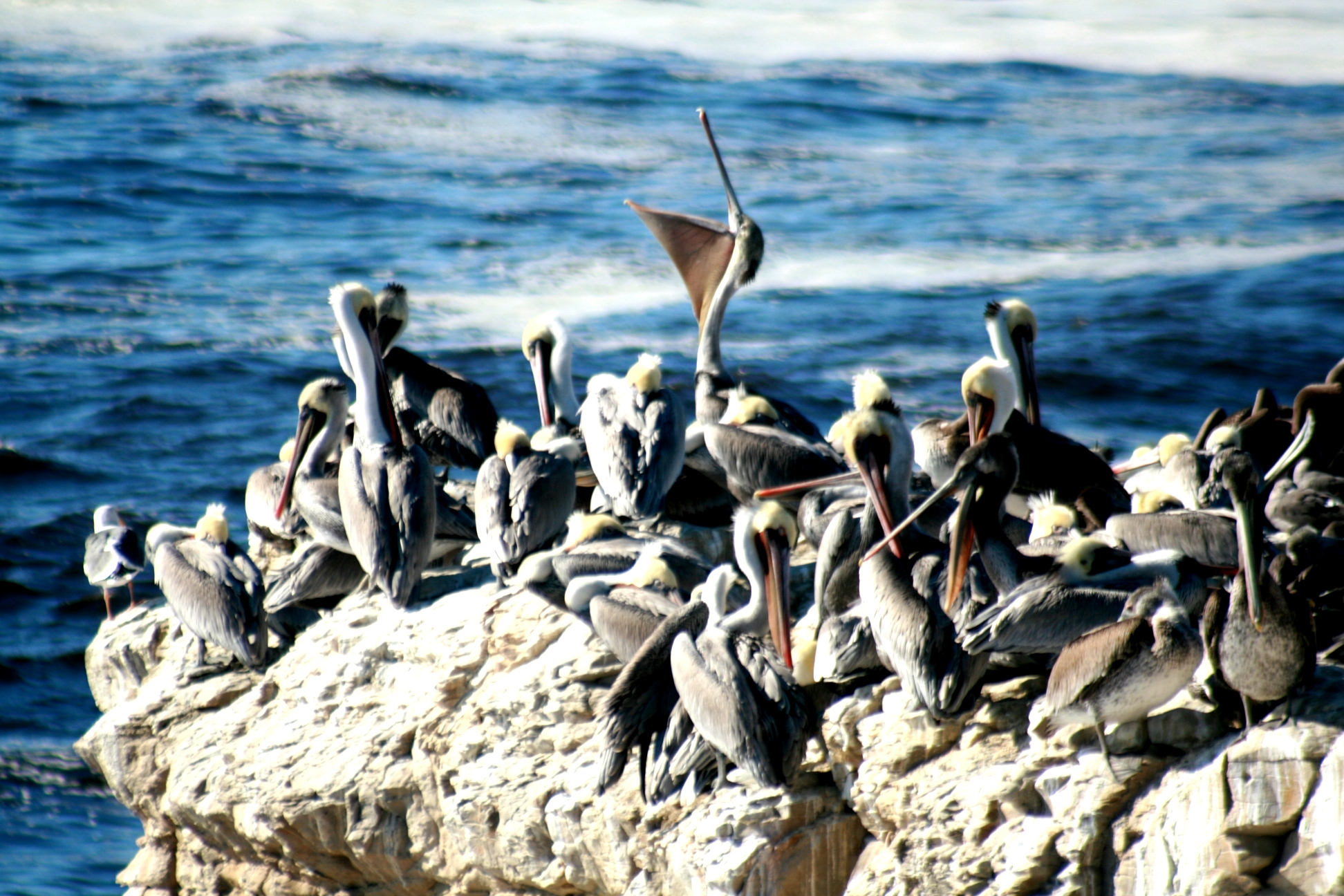 Brown Pelicans, Pelecanus occidentalis.